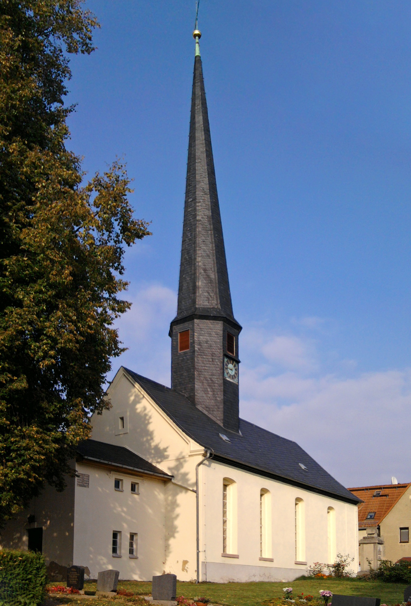 Church in Neuenmörbitz in Landkreis Altenburger Land/Thuringia/Germany